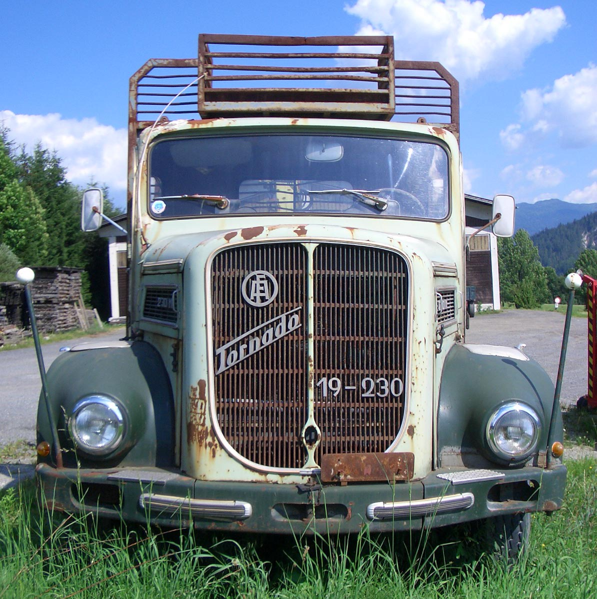 ÖAF Tornado photographed in Salzburg, Austria 2004.